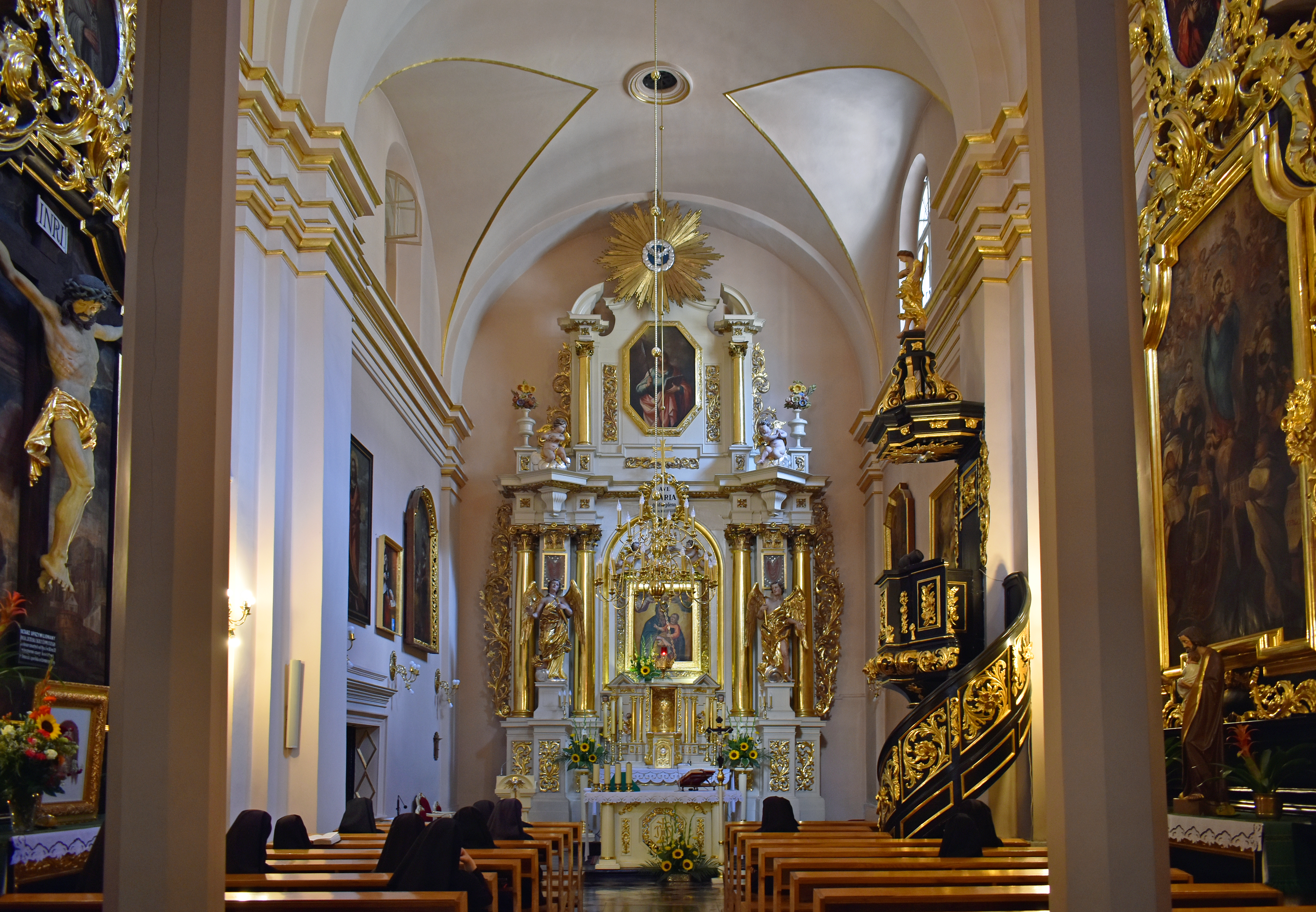 Thomas the Apostle Church (interior), 12 Szpitalna street, Old Town, Krakow, Poland